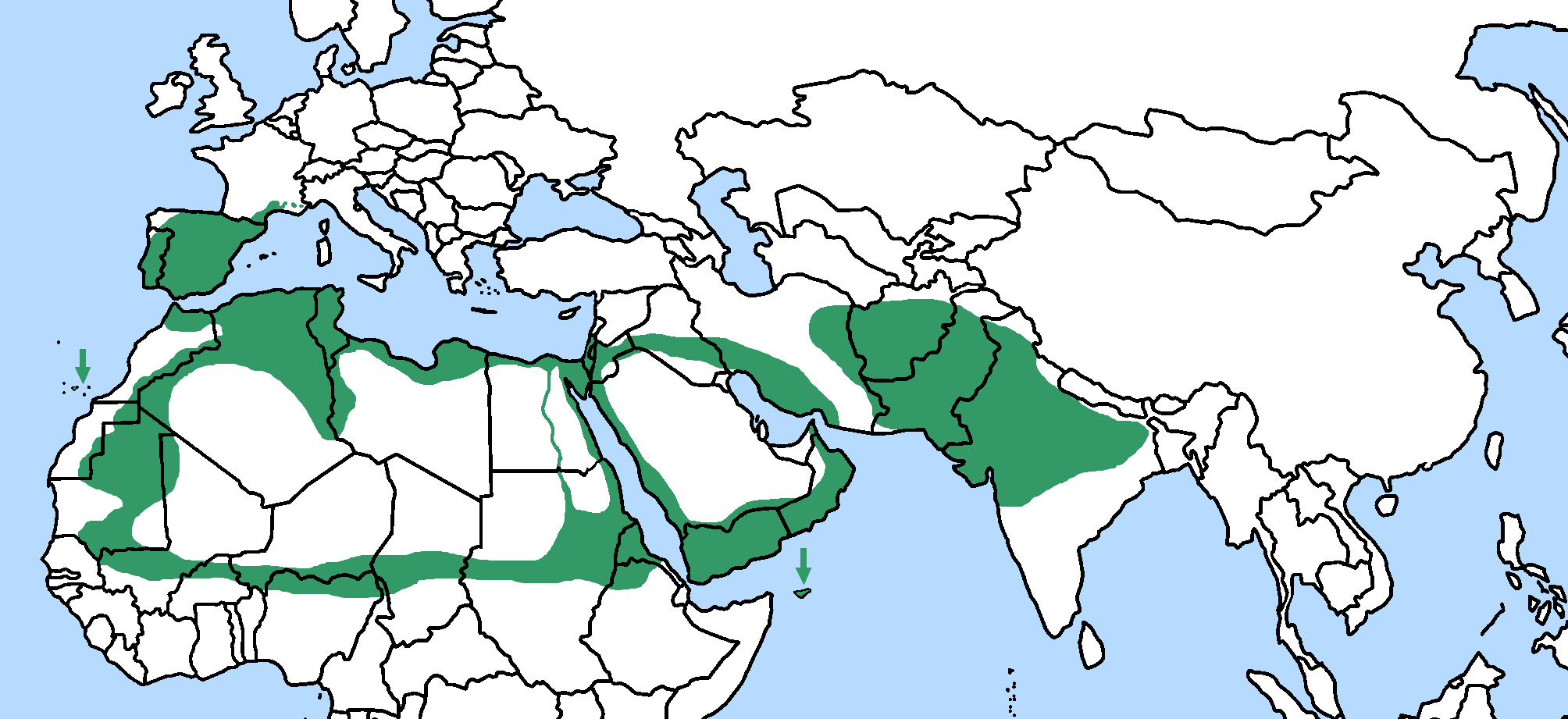 Source: Tony Harris and Kim Franklin:Shrikes and Bush-Shrikes. Helm-London 2000. p 62. Transformations: Dri Jean-Baptiste "Rajout de la localisation de la région PACA"